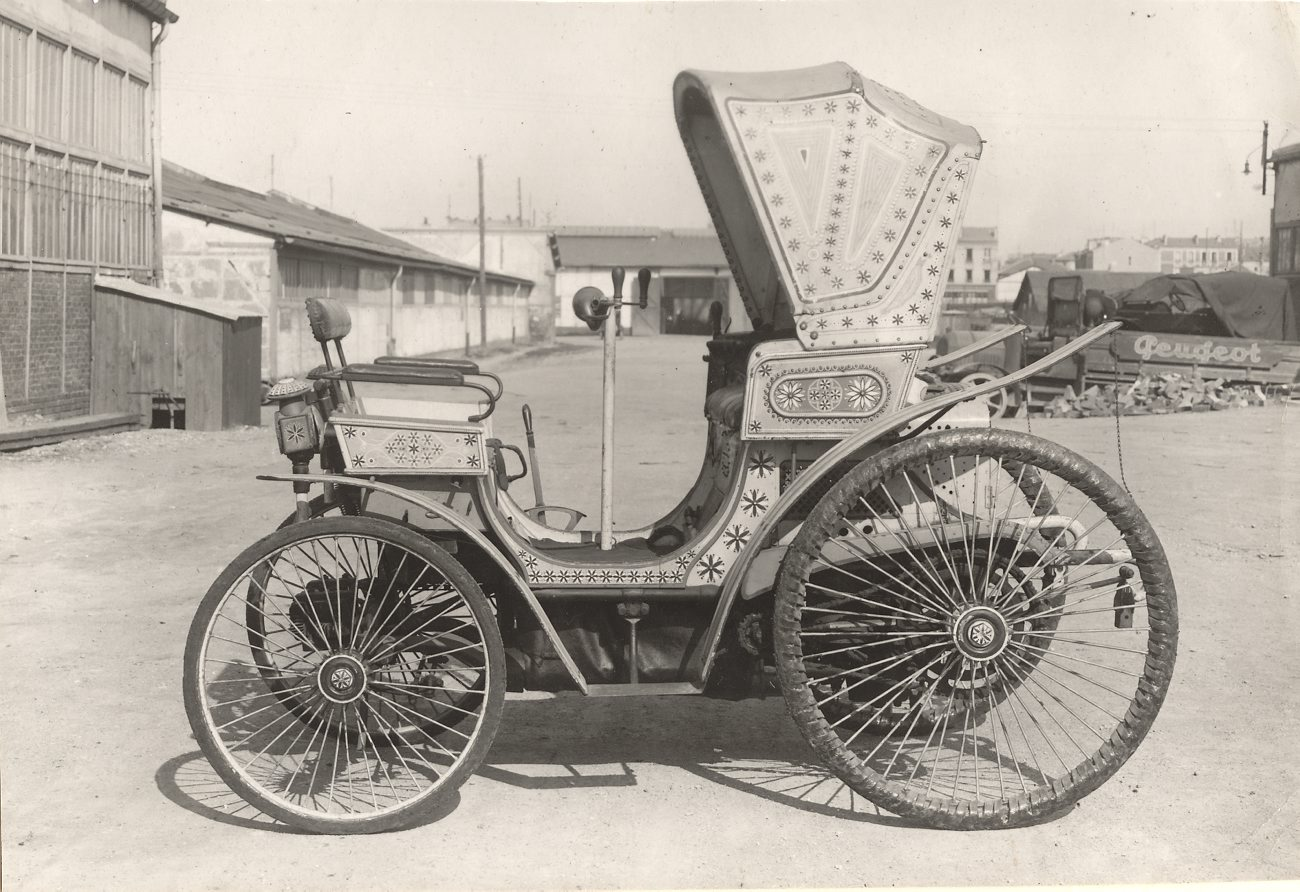 Peugeot Type 4 (Source labeled this as: "Automobile. Peugeot luxury wagon. Manufactured for the Shah of Persia, about 1893.", but this is probably a garbled misidentification, since this car looks identical to the Peugeot Type 4, of which only a single example was made, for the Bey of Tunis in 1892.)